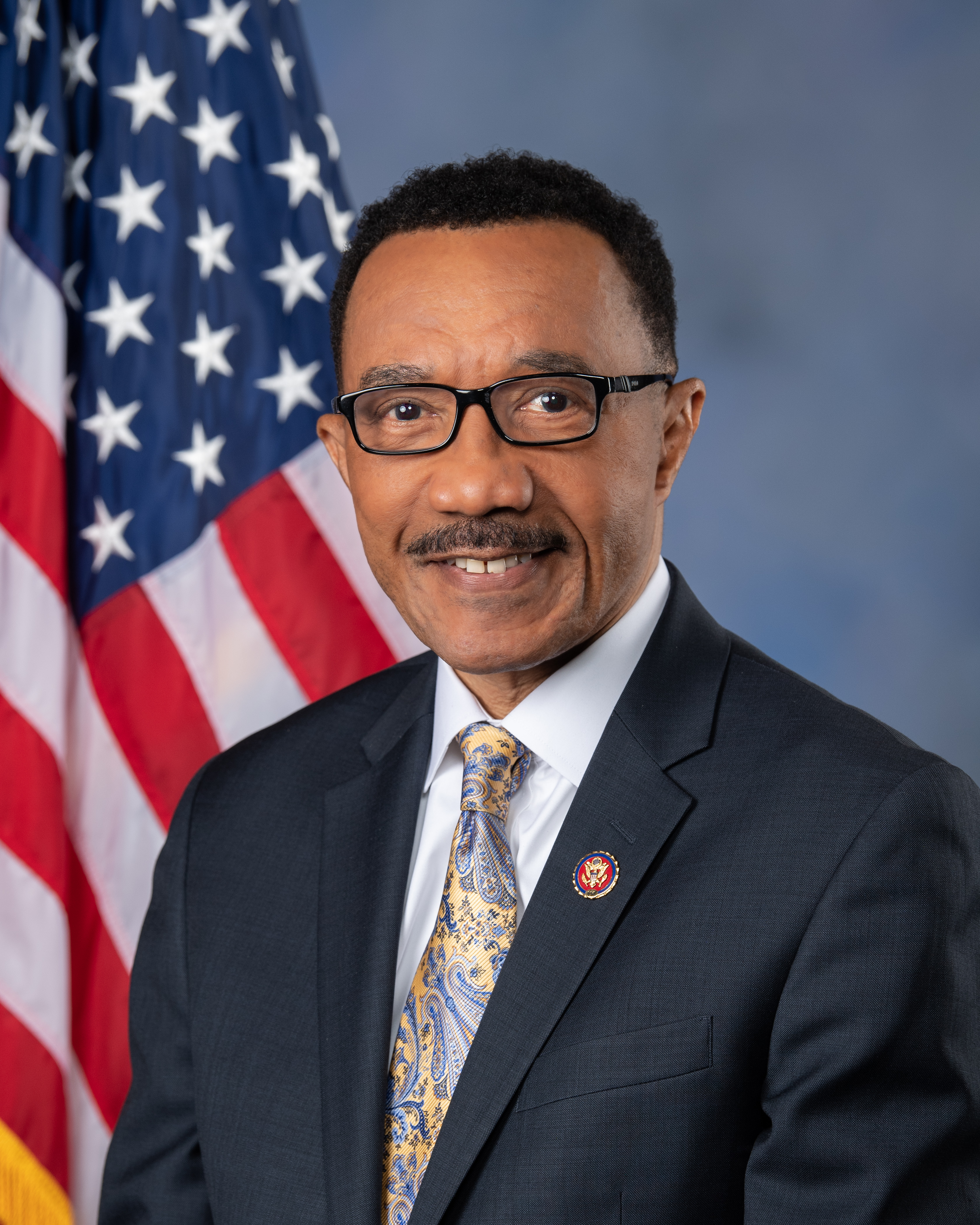 Official portrait of Rep. Kweisi Mfume, 116th cCongress